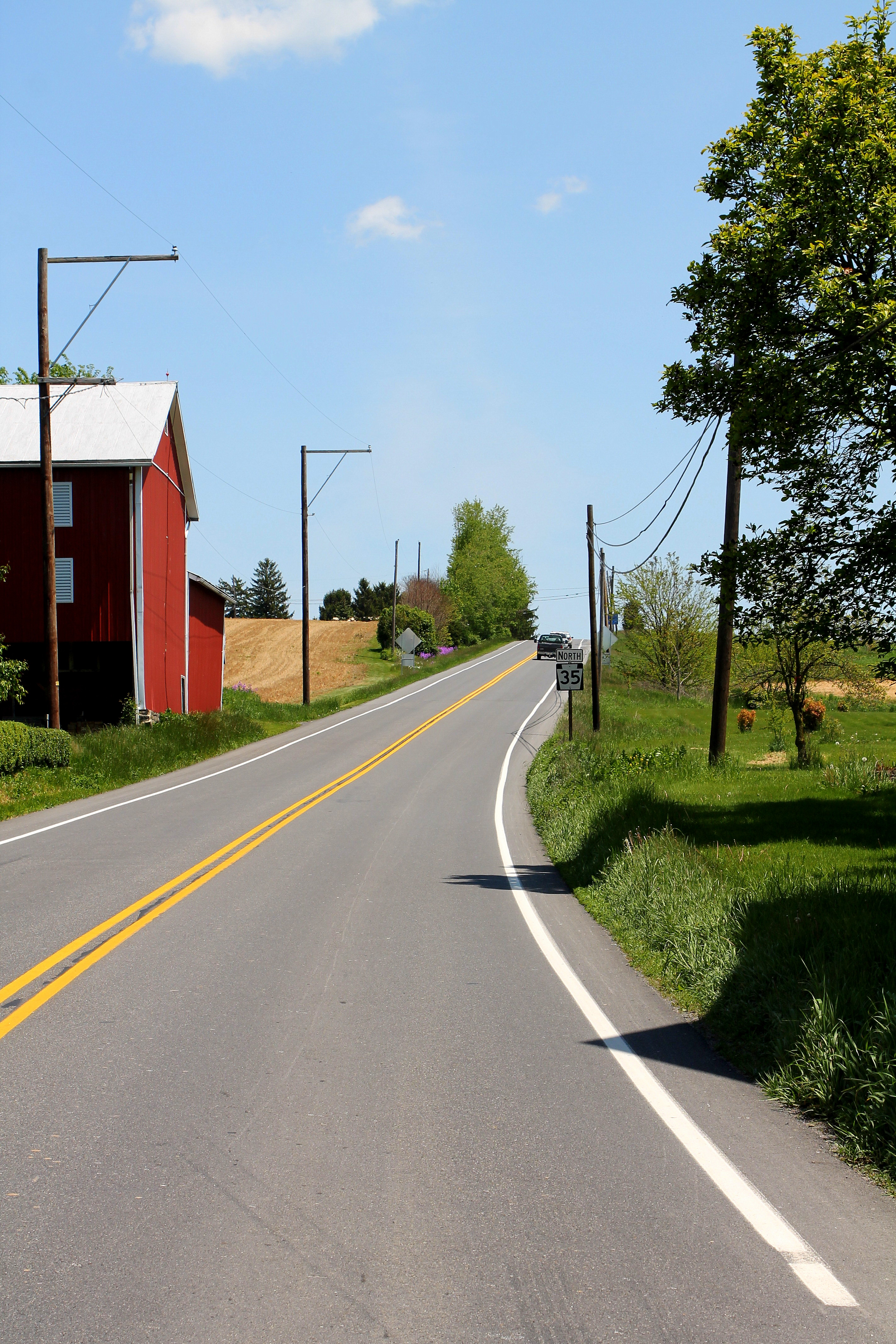 Pennsylvania Route 35 in Snyder County, Pennsylvania, I think near the community of Kantz.